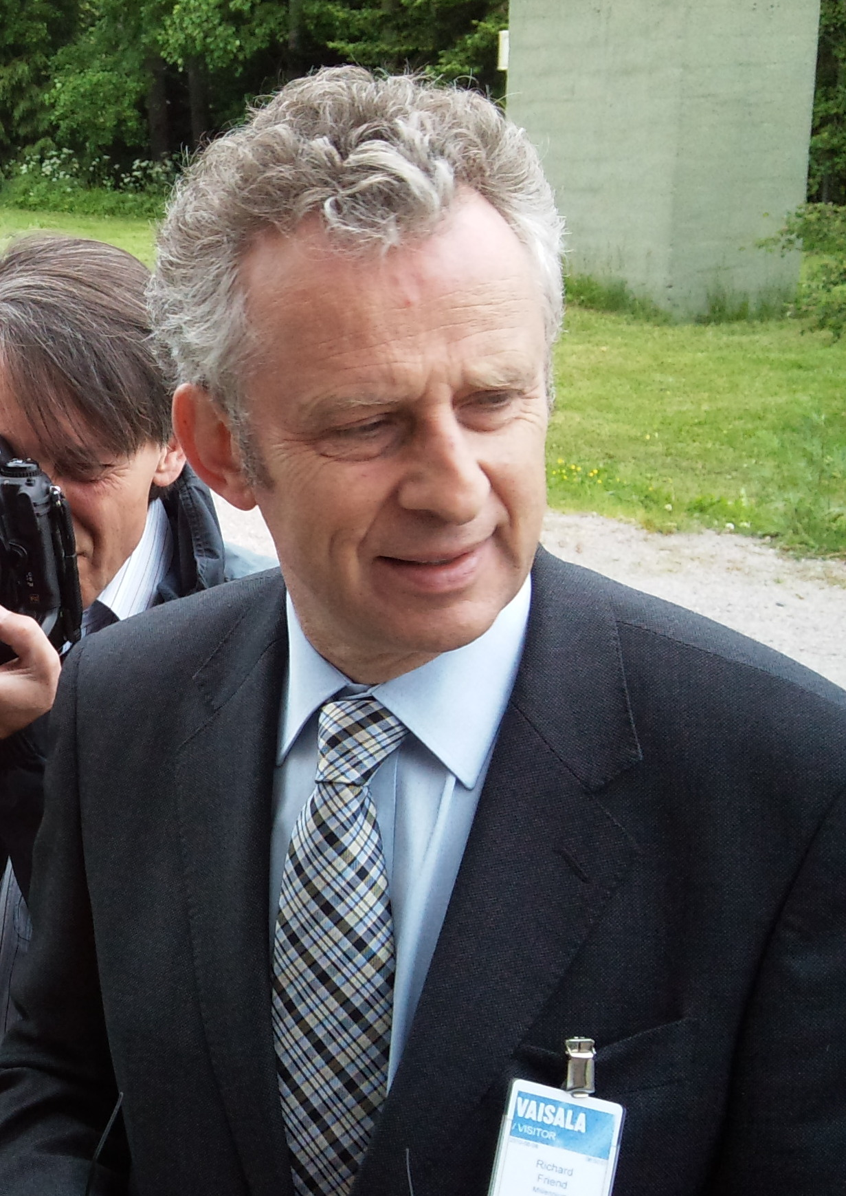 Richard Friend, British physicist